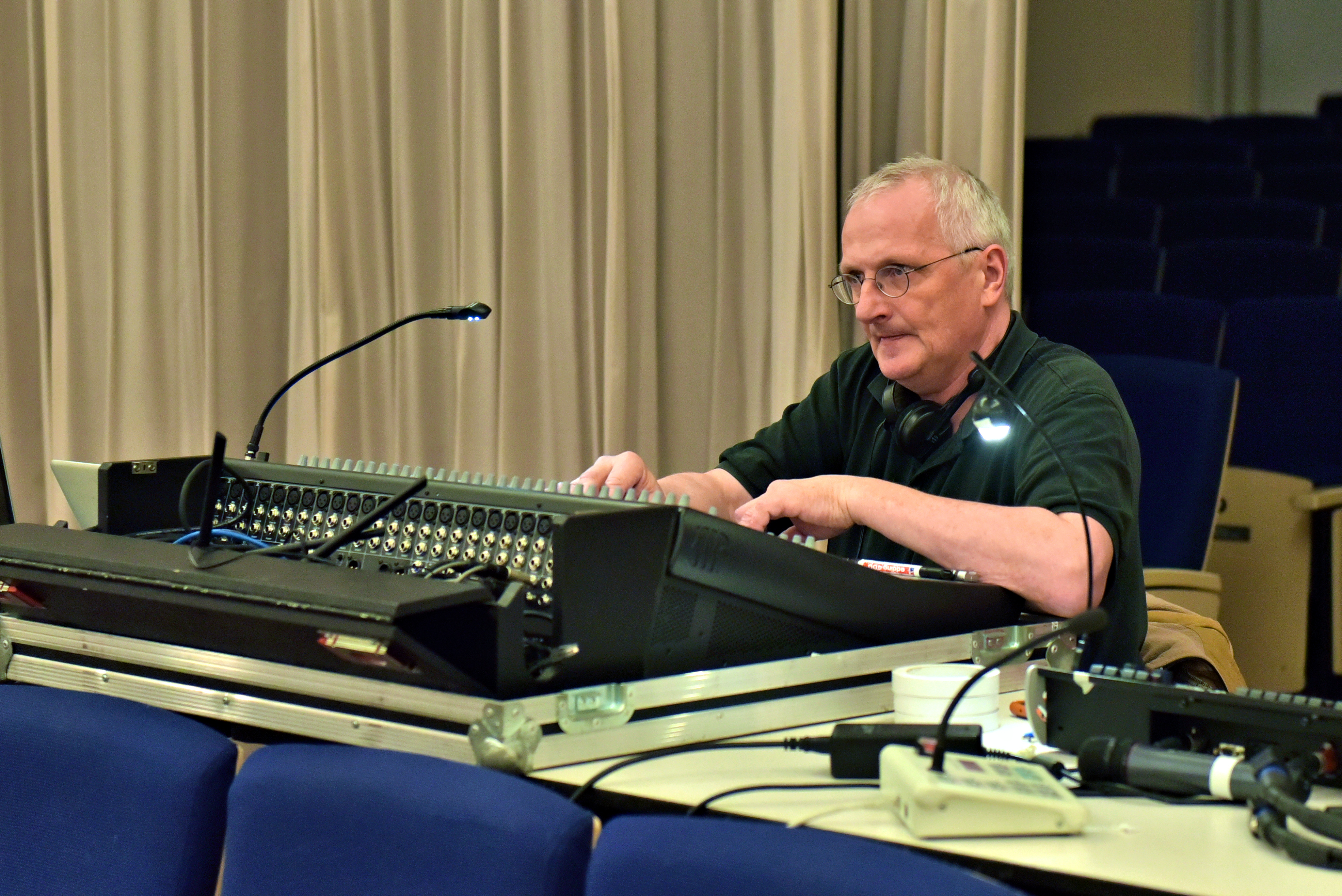 Larry Mathews' Blackstone Band, soundcheck, Kolosseum Lübeck, 9. Mar. 2018